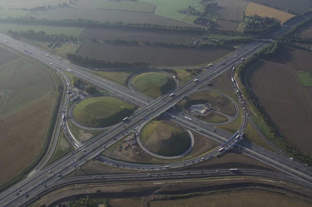 Motorway interchange Kamen photographed on first day after conversion. After 4 years of construction it now has 6 lanes and a new connection from the A 2 from Hannover to the A 1 towards Cologne. View ist to the S-E with the A 2 crossing from the upper left (dir. Hannover) to the lower right (dir. Oberhausen) and the A 1 from the lower left (dir. Hamburg) to the upper right (dir Cologne)